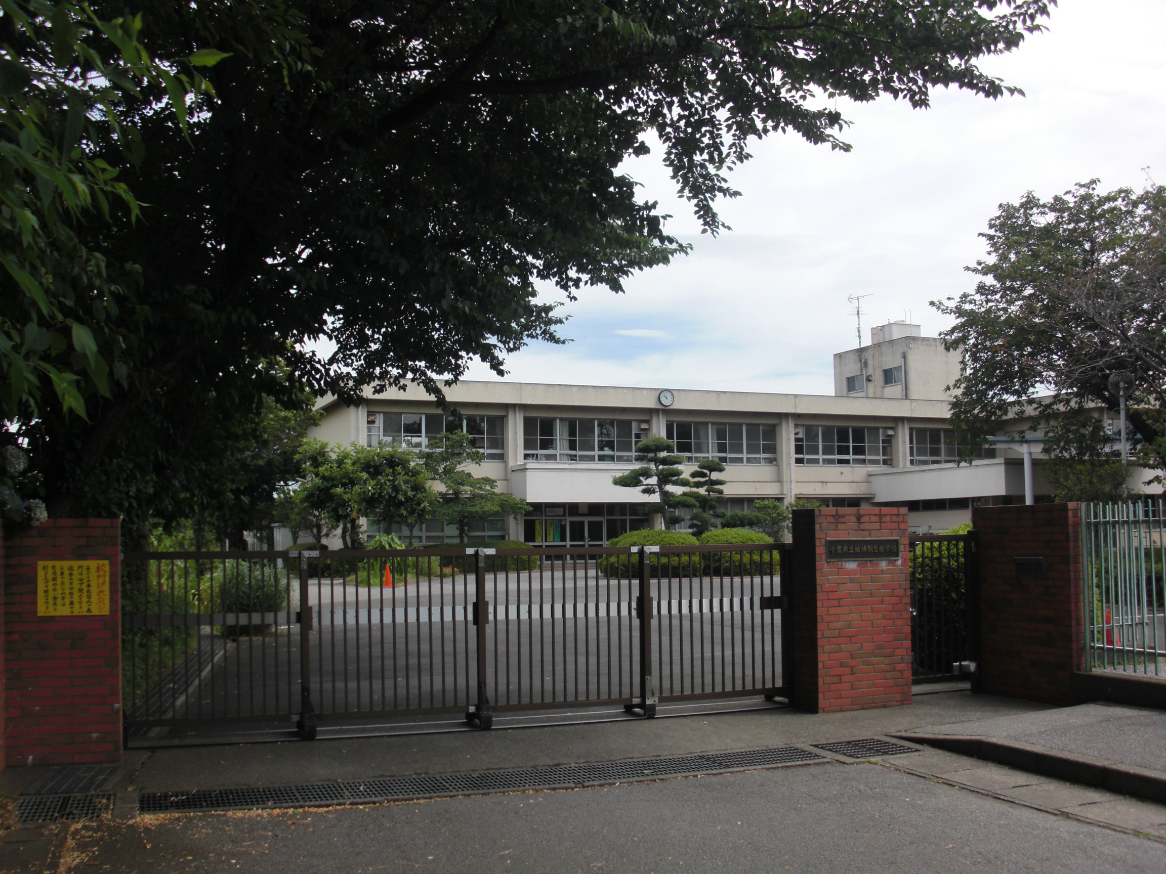 This is the Chiba prefectural Kashiwa Special School, which is located in Kashiwa, Chiba, Japan.